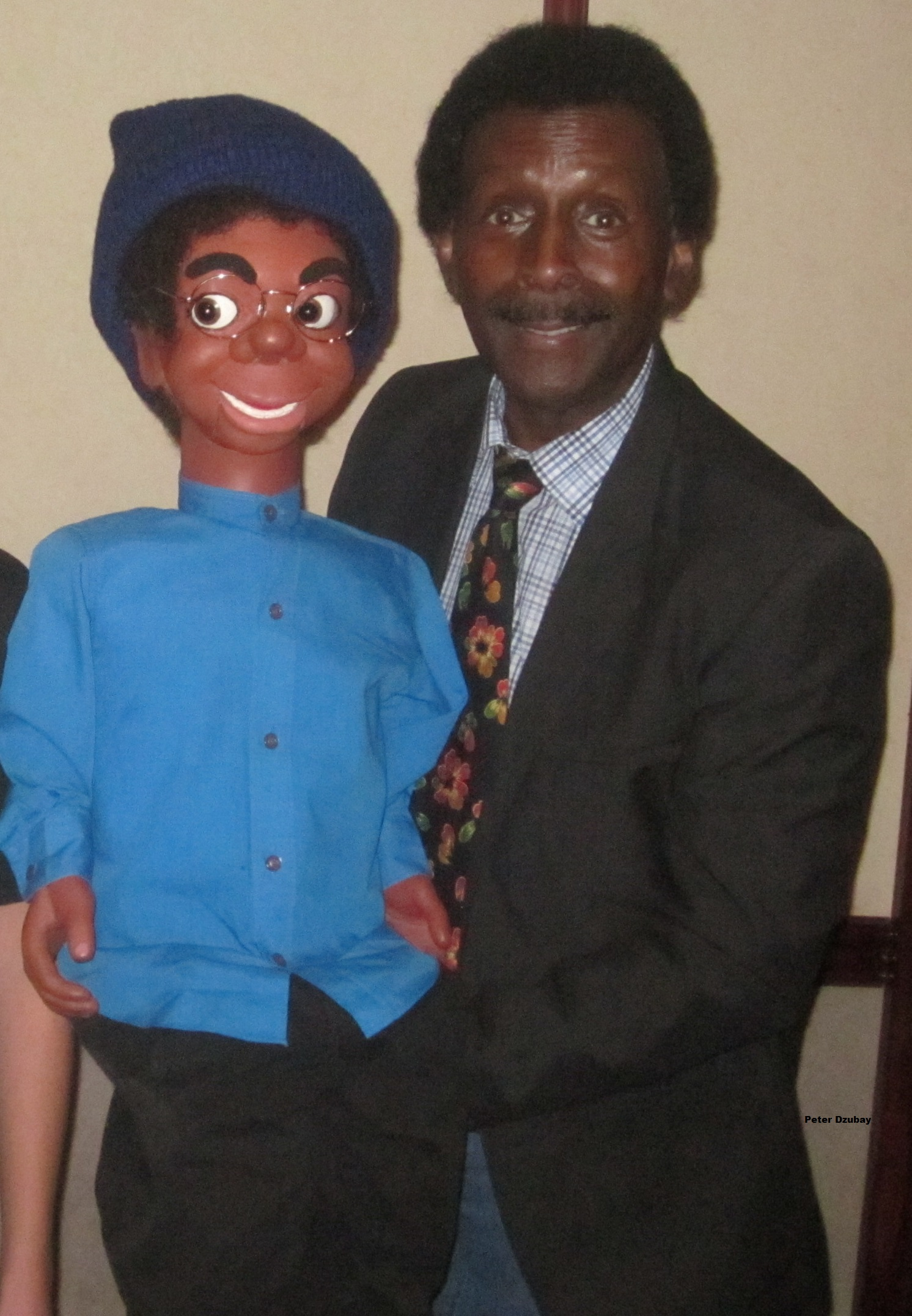 Willie Tyler and Lester in July 2014 Peter Dzubay